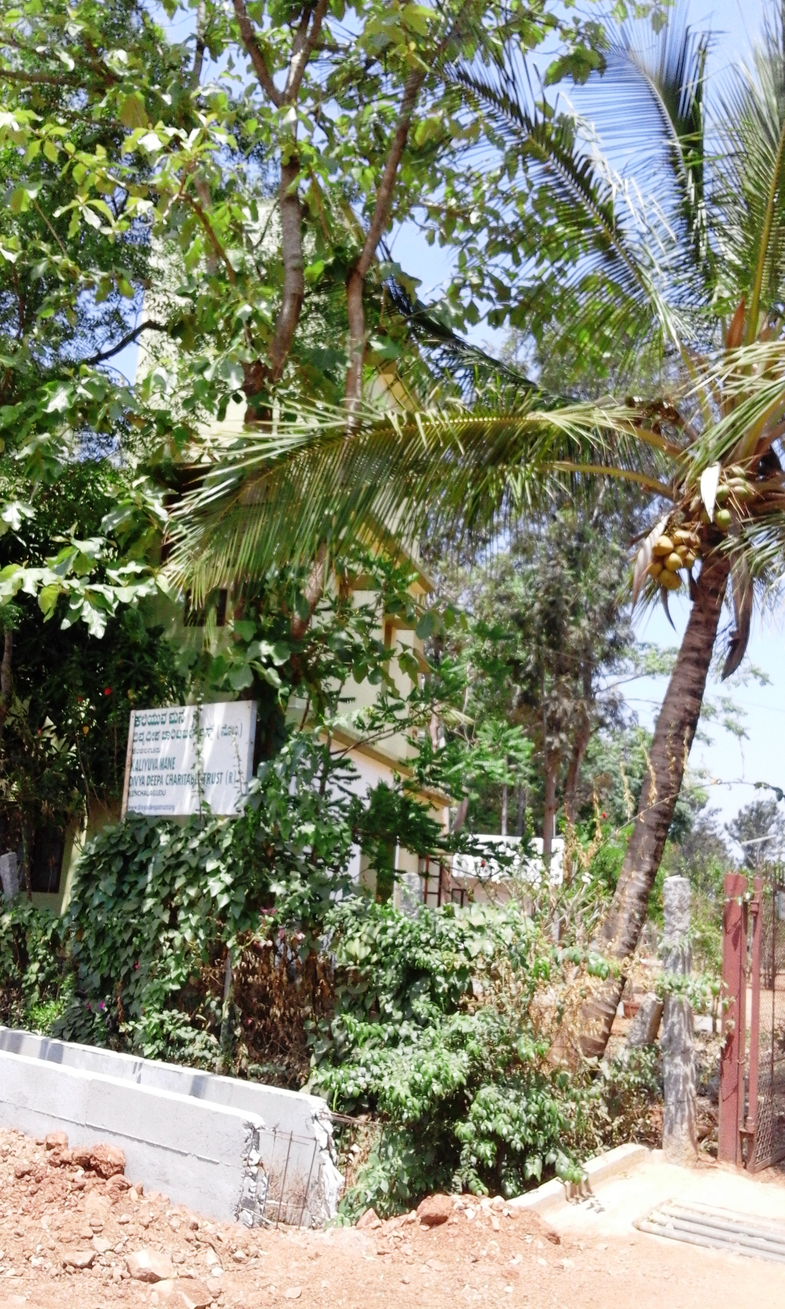 Kaliyuva Mane School, Manandavadi Road Kenchalagudu village Rayanakere post Jayapura hobli, Mysore, Karnataka India